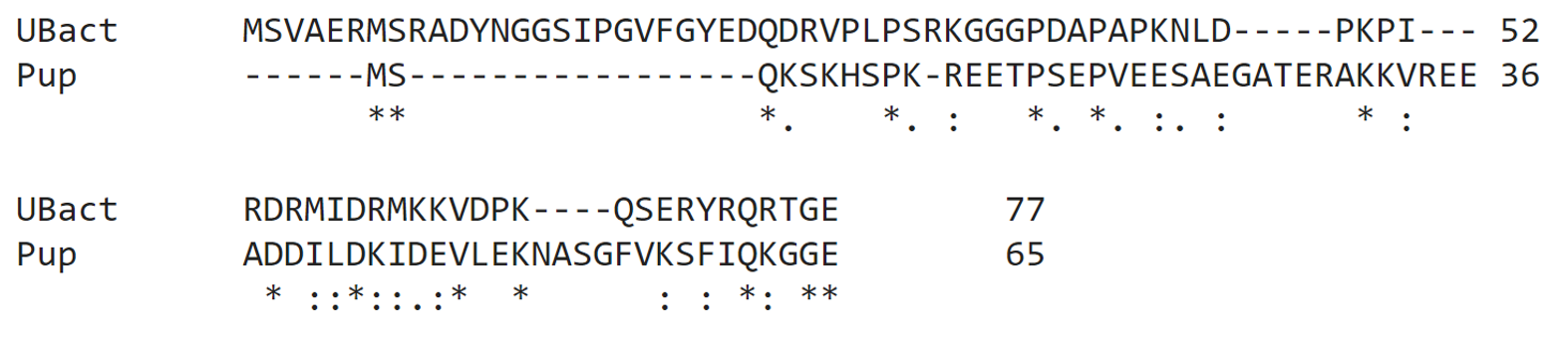 UBact (EES53751) and Pup (EES52728) from the bacterium Leptospirillum ferrodiazotrophum were aligned with Clustal Omega to assess their similarity.